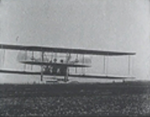 Frame from the silent film 'Wilbur Wright und seine Flugmaschine'